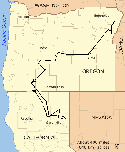 Map of the approximate route of OR-7, a wolf that dispersed in 2011 from the Imnaha Pack of wolves in northeastern Oregon in the United States and traveled to northern California. The map, which will need to be updated to include later movement by OR-7, covers the journey from September 10, 2011, through March 6, 2012.